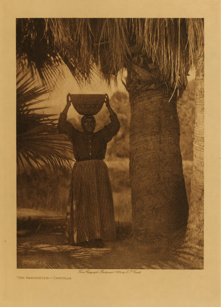 The harvester - Cahuilla. Washingtonia filifera fan palms in Palm Canyon, California. Plate facing page 116